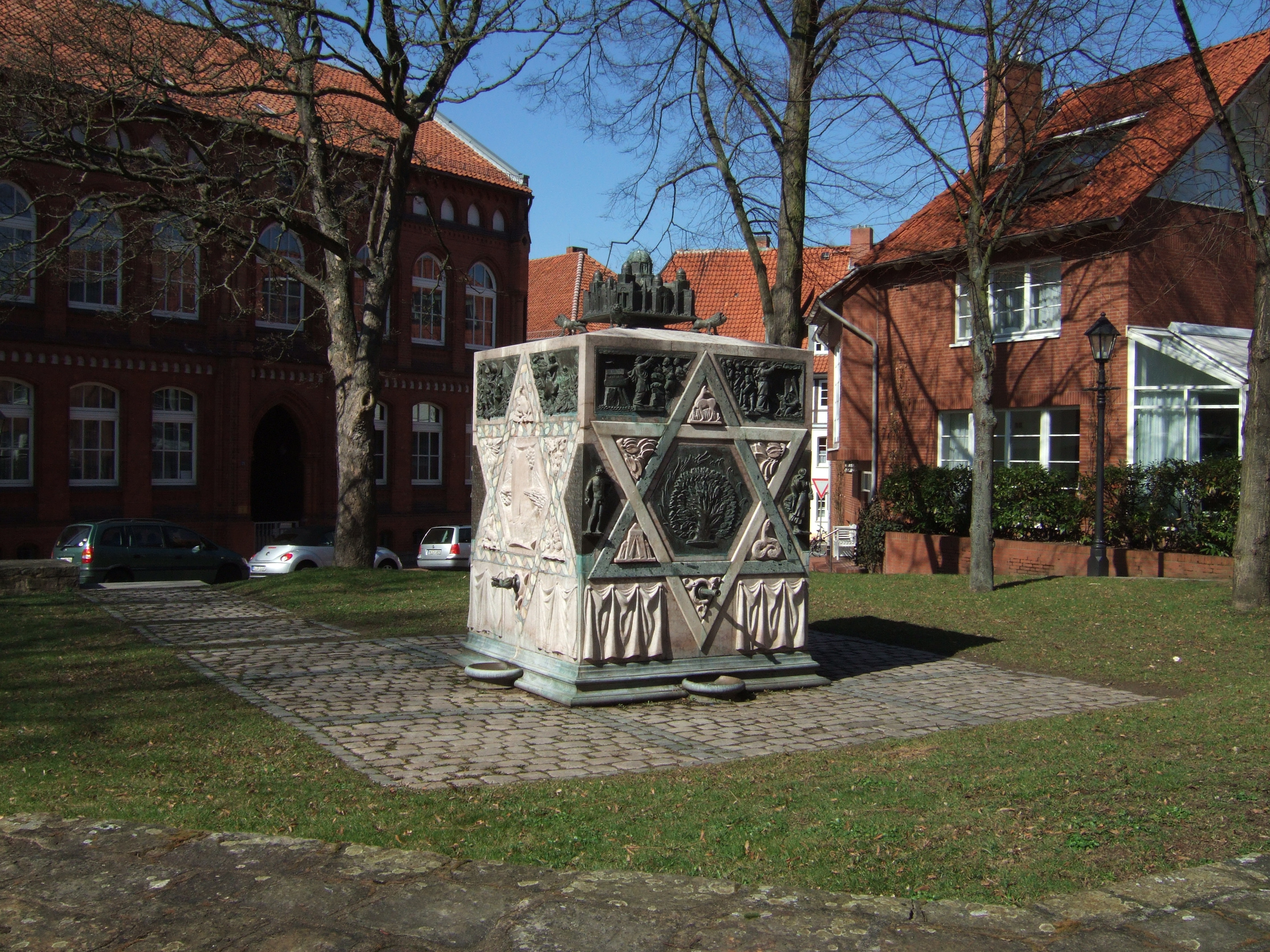 Hildesheim, Jewish Synagogue Memorial, Lappenberg.